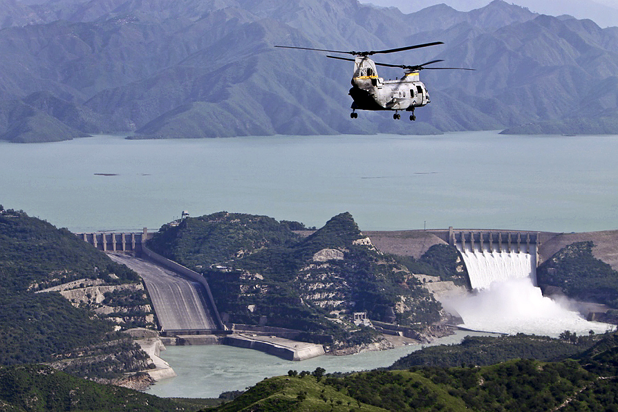 A U.S. Marine Corps CH-46 Sea Knight helicopter flies near the Tarbela Dam in Pakistan's Khyber-Pakhtunkhwa province, Aug. 27, 2010. Defense Department officials announced Aug. 30, 2010, the deployment of 18 helicopters to Pakistan from the 16th Combat Aviation Brigade, based at Fort Wainwright, Alaska.